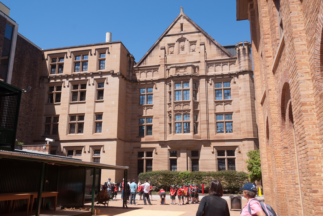 Department of Lands building, Sydney